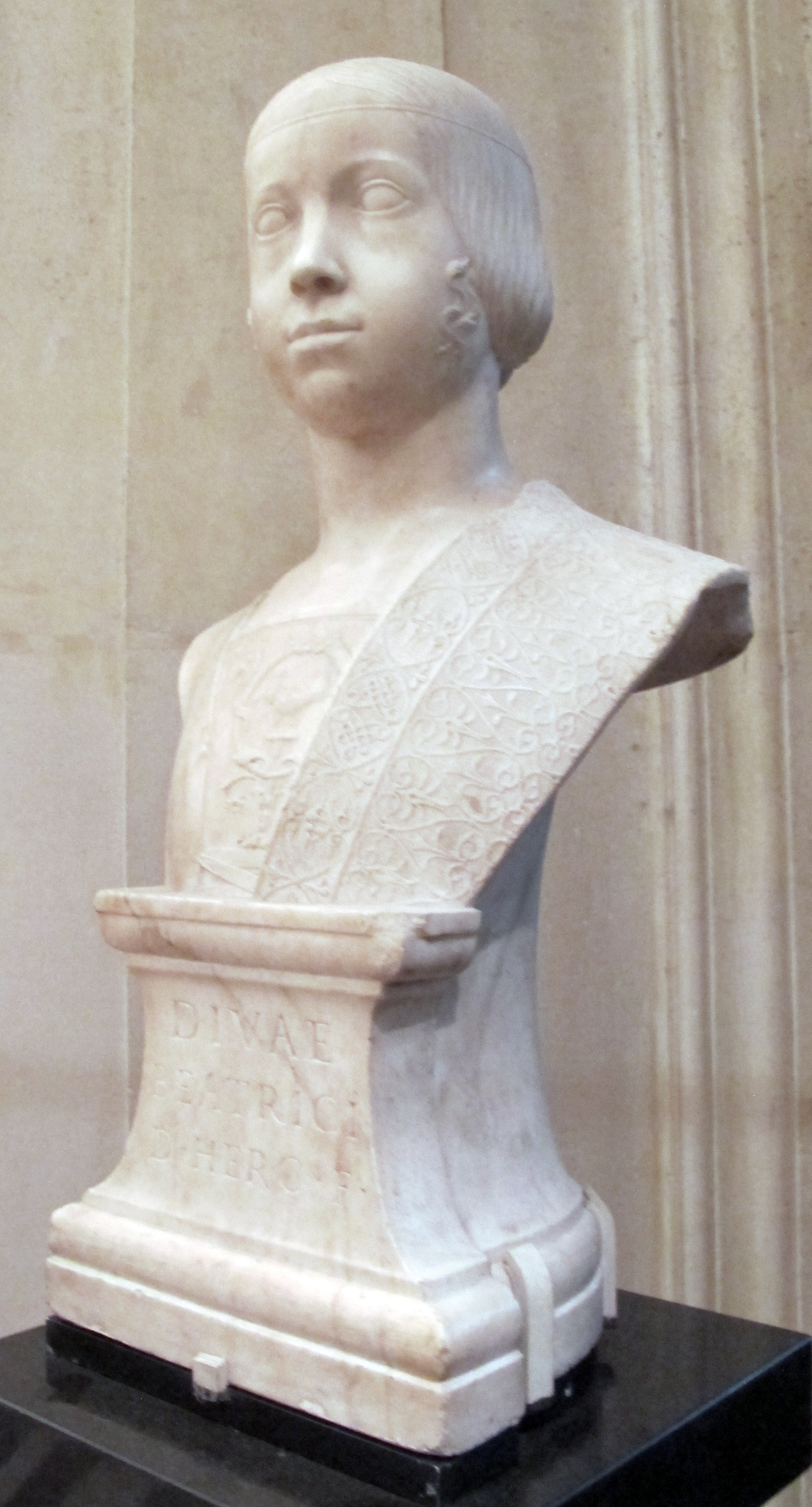 Bust of Beatrice d'Este by Giovanni Cristoforo Romano, c. 1490. Inscription: "Divae Beatrici D. Herc. F." (To the divine Beatrice, daughter of Duke Ercole")